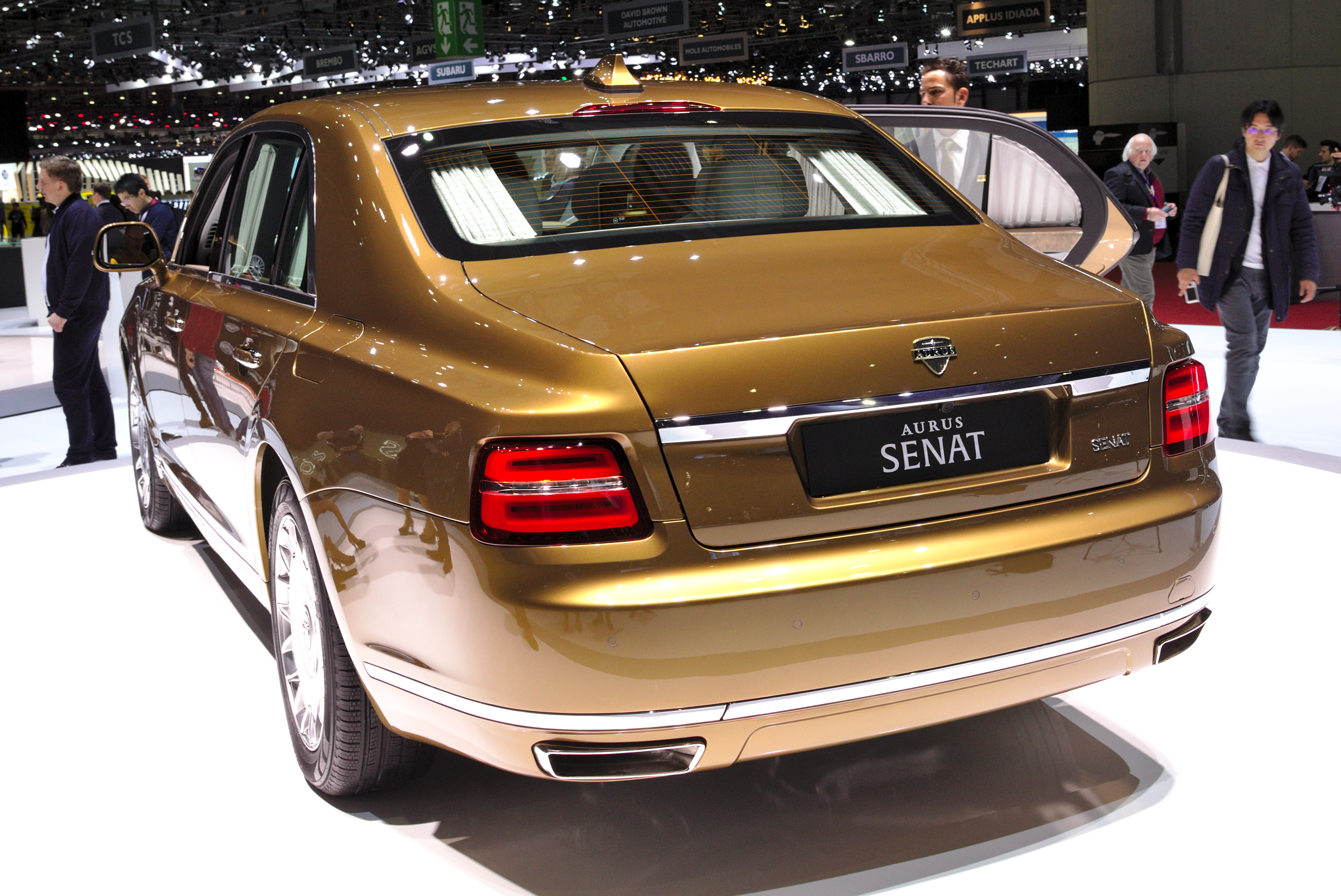 Aurus Senat at Geneva Motor Show 2019